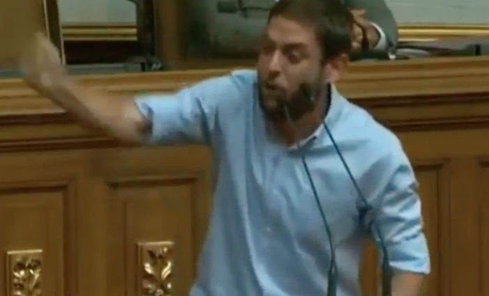 Shortly before his arrest, Juan Requesens gives an energetic speech serving as a deputy in the National Assembly of Venezuela, in Caracas